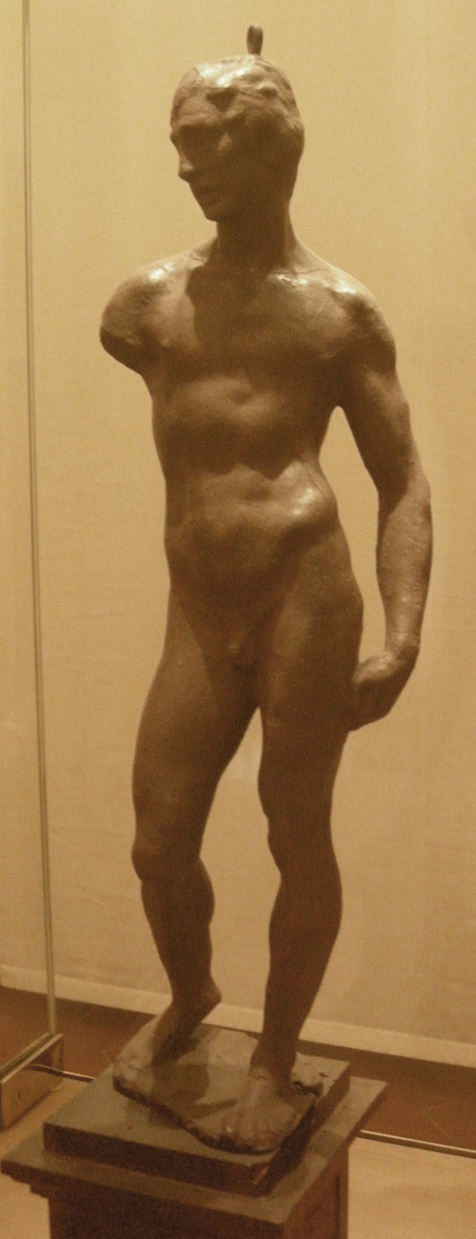 After michelangelo, nudo virile (from original work of 1501-1503) 2